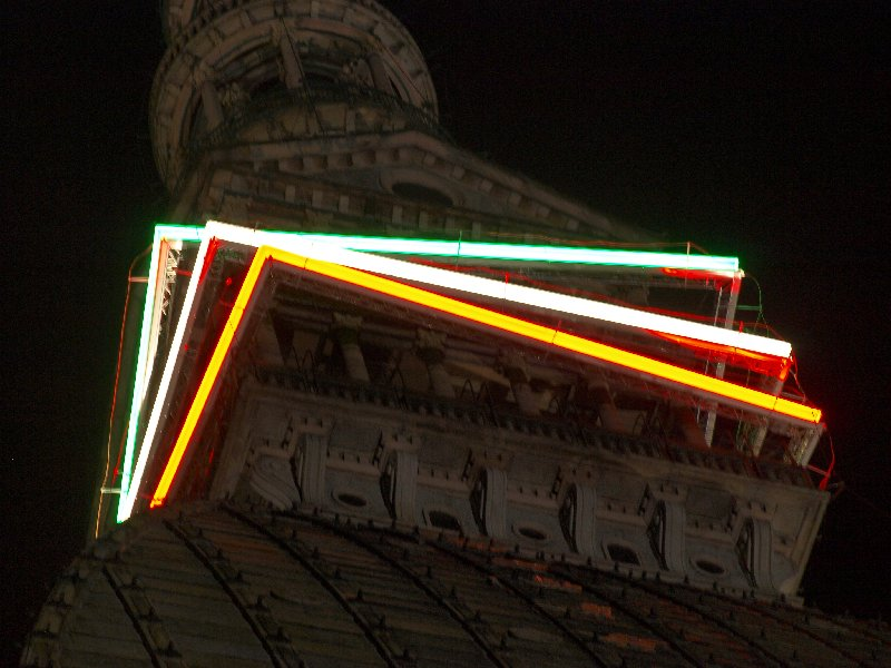 Mole Antonelliana, Turin: special lighting for the 150th Anniversary of Italian Unification (detail)